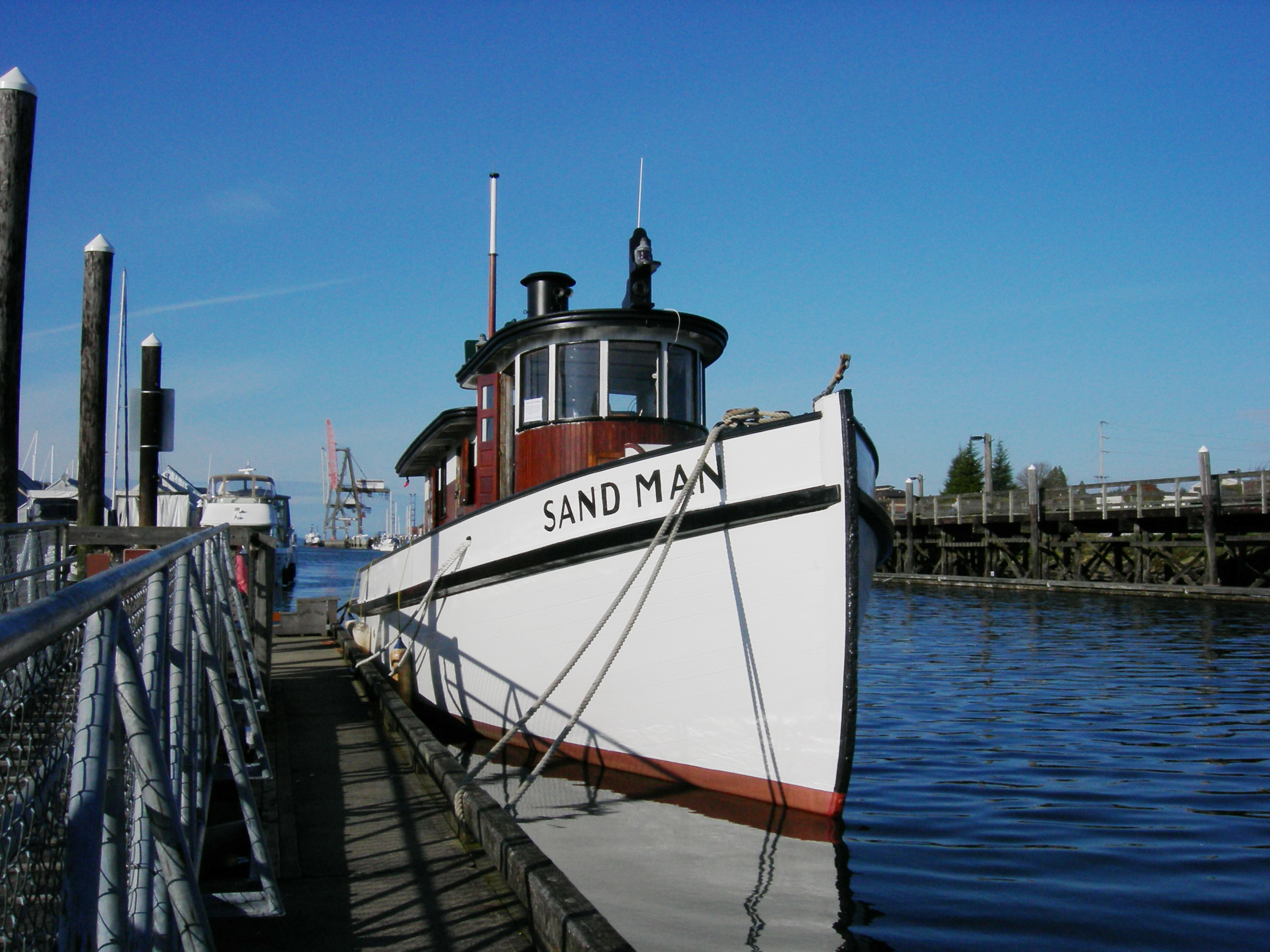 The Sand Man, a restored tugboat moored at Percival Landing Park in Olympia, Washington.